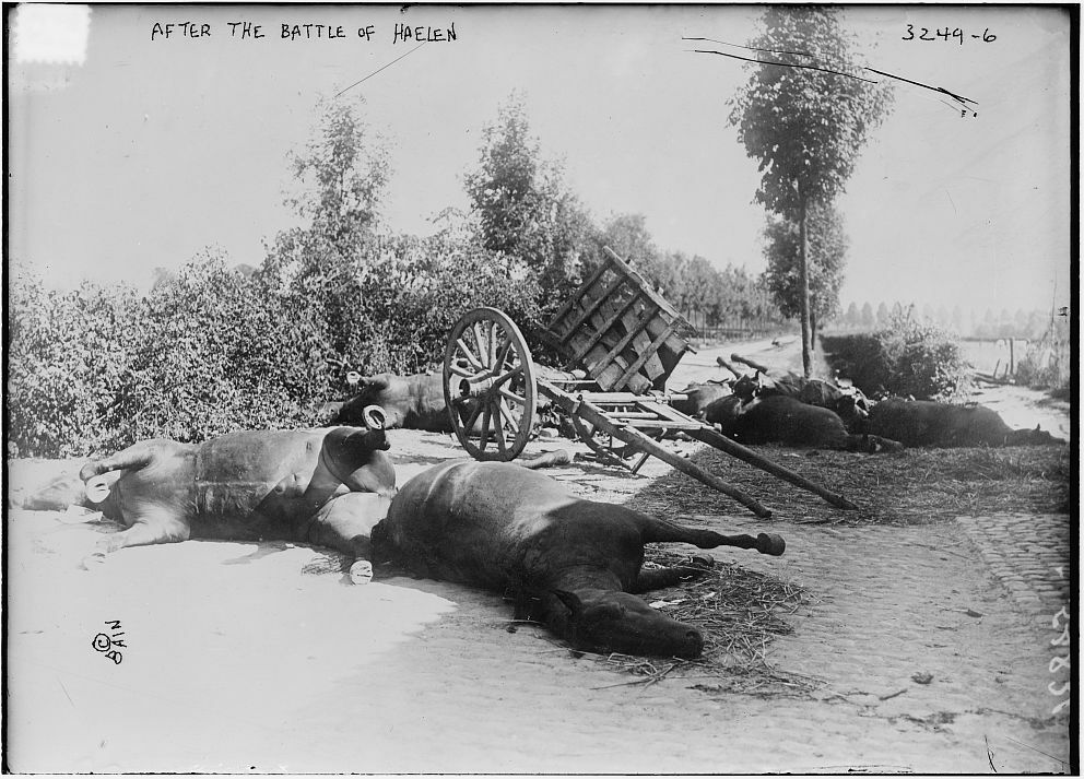 After the Battle of Haelen (LOC) Bain News Service,, publisher. After the battle of Haelen [between ca. 1910 and ca. 1915] 1 negative : glass ; 5 x 7 in. or smaller. Notes: Title from unverified data provided by the Bain News Service on the negatives or caption cards. Forms part of: George Grantham Bain Collection (Library of Congress). Format: Glass negatives. Repository: Library of Congress, Prints and Photographs Division, Washington, D.C. 20540 USA, General information about the Bain Collection is available at Persistent URL: Call Number: LC-B2- 3249-6